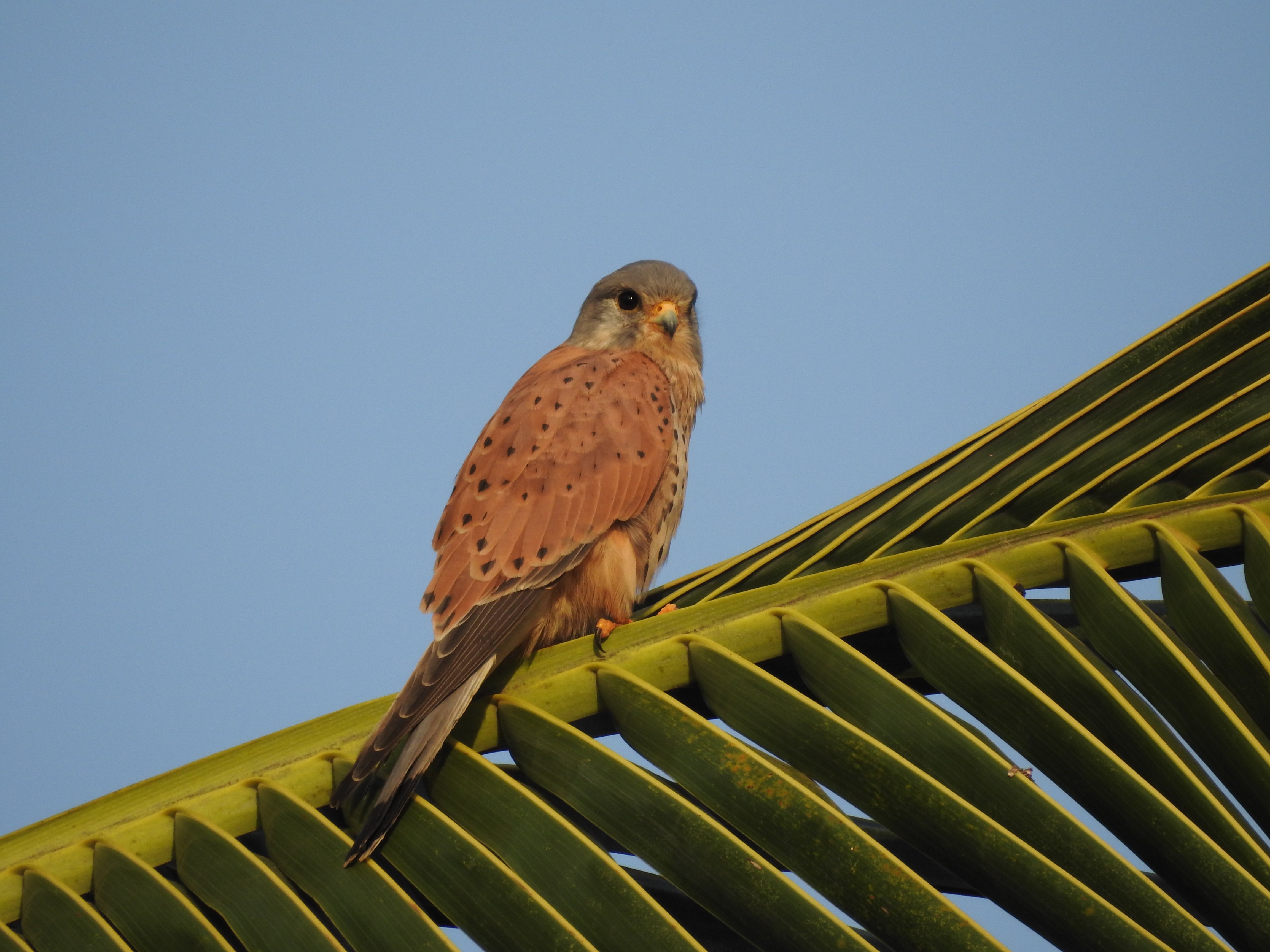 common kestrel at Indian Naval Academy Ezhimala